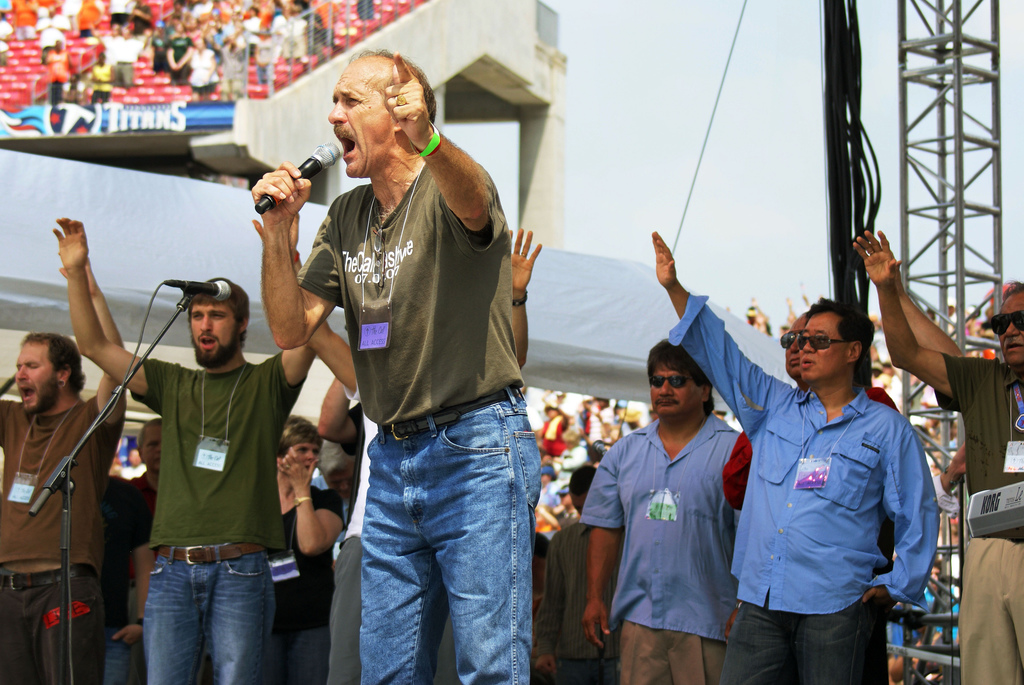 Lou Engle onstage at The Call Nashville